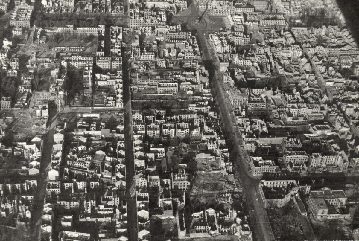 Aerial photograph of Darmstadt one day after the Brandnacht of 11th September 1944